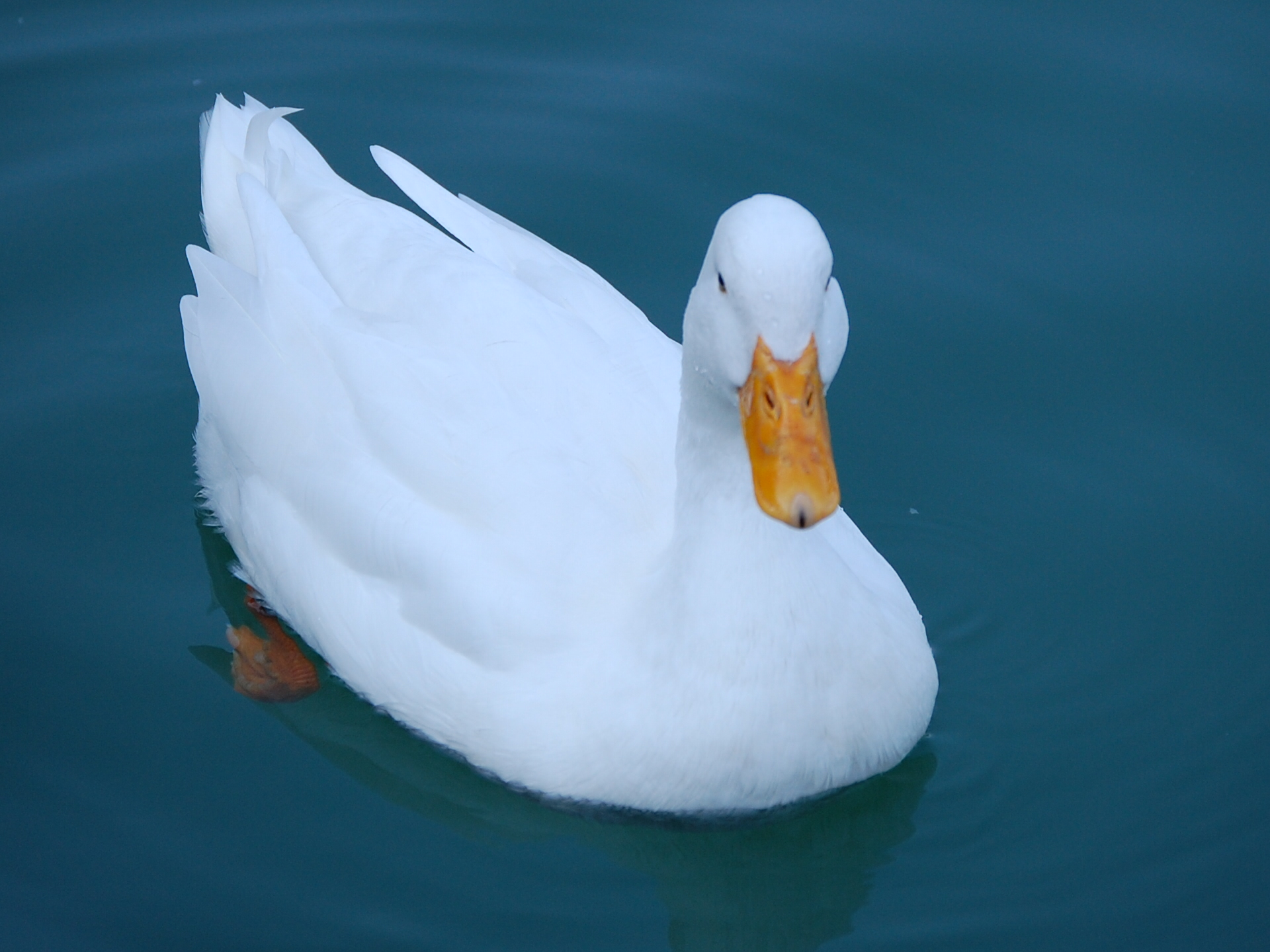 Domestic duck